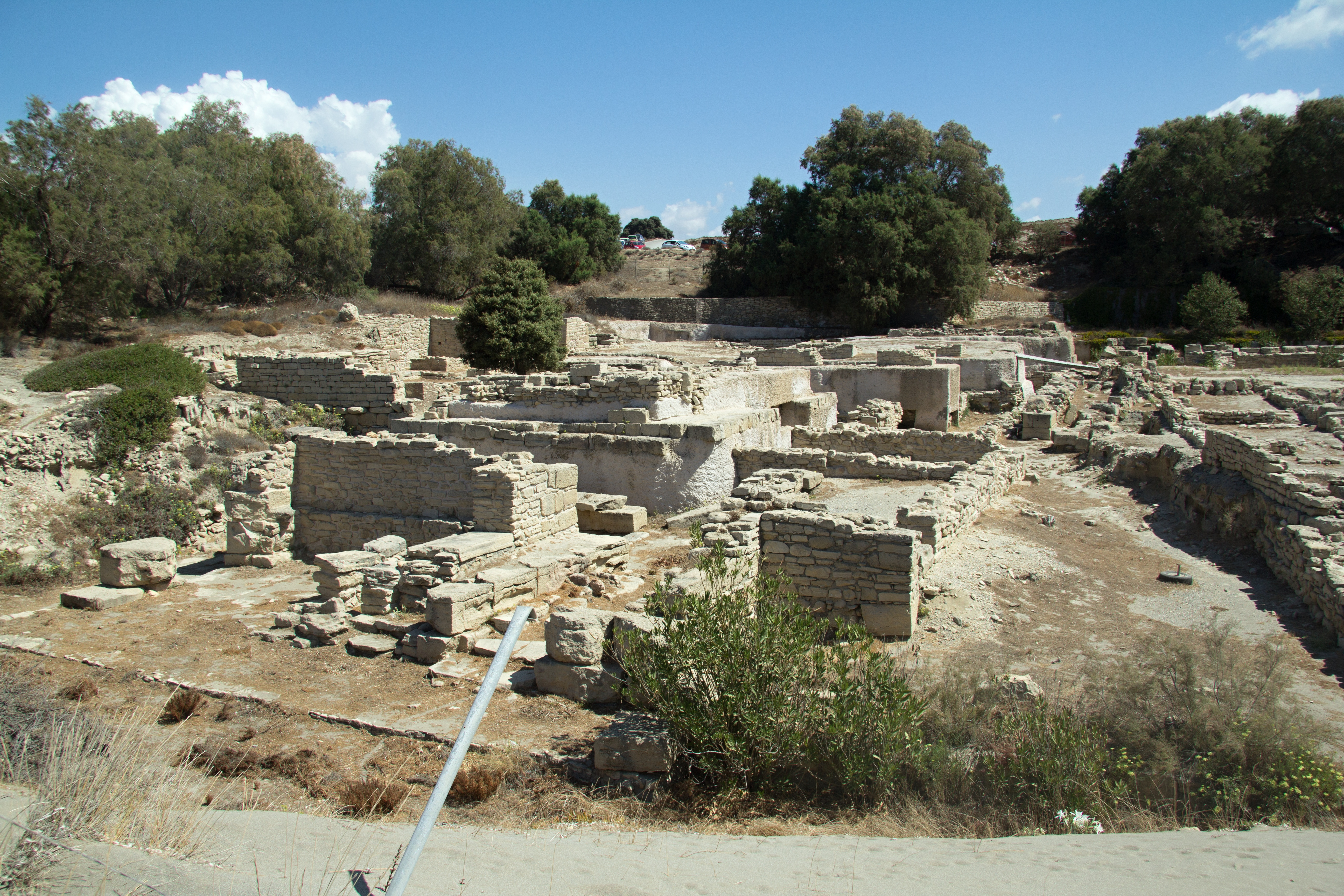 Kommos, Crete.